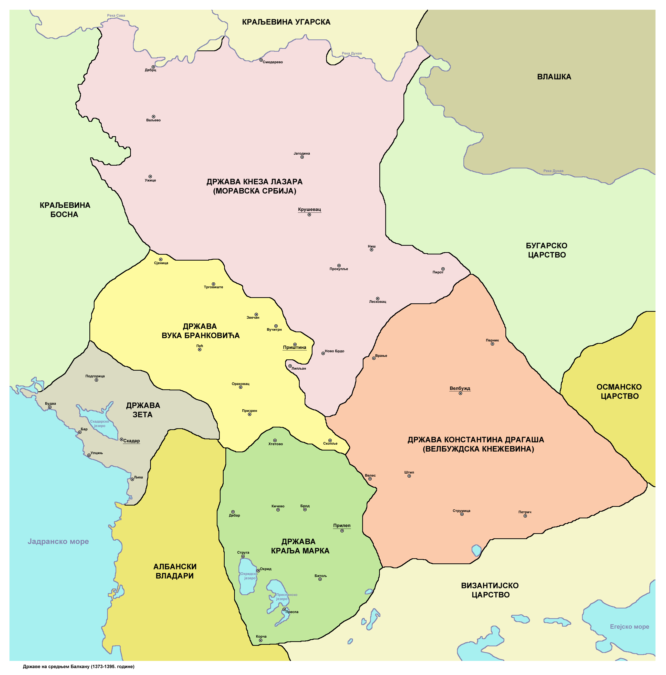 States in the Central Balkans that emerged after dissolution of Serbian Empire in the 14th century (1373-1395).